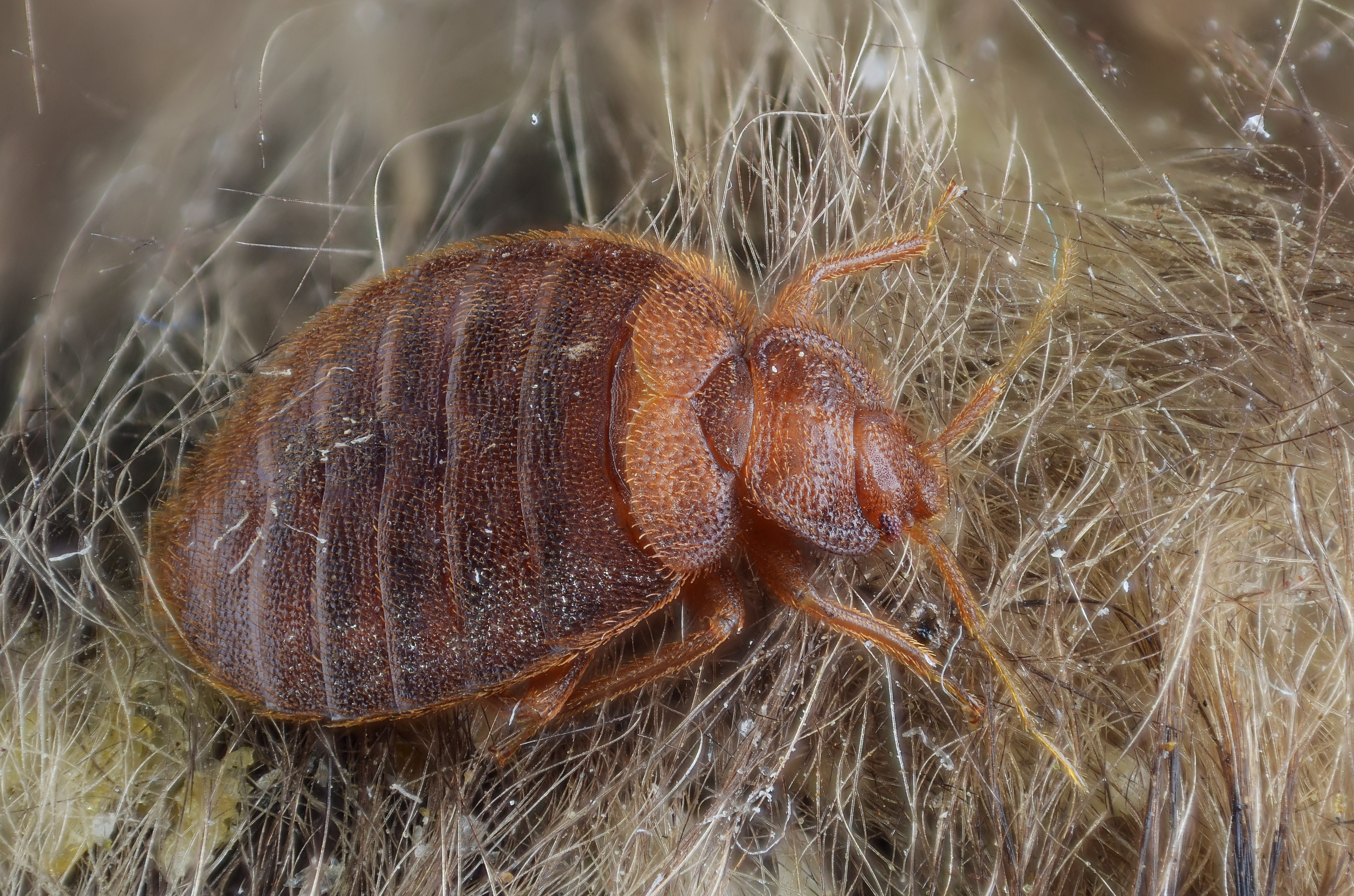 Larvae (Nymph) of the bed bug - Cimex lectularius - on the fur of one of its hosts, a bat. Scale : bug length ~ 5 mm Technical settings : - Focus stack of 22 images - Componon 28 mm f/4 at f/4 reversed on extension tubes